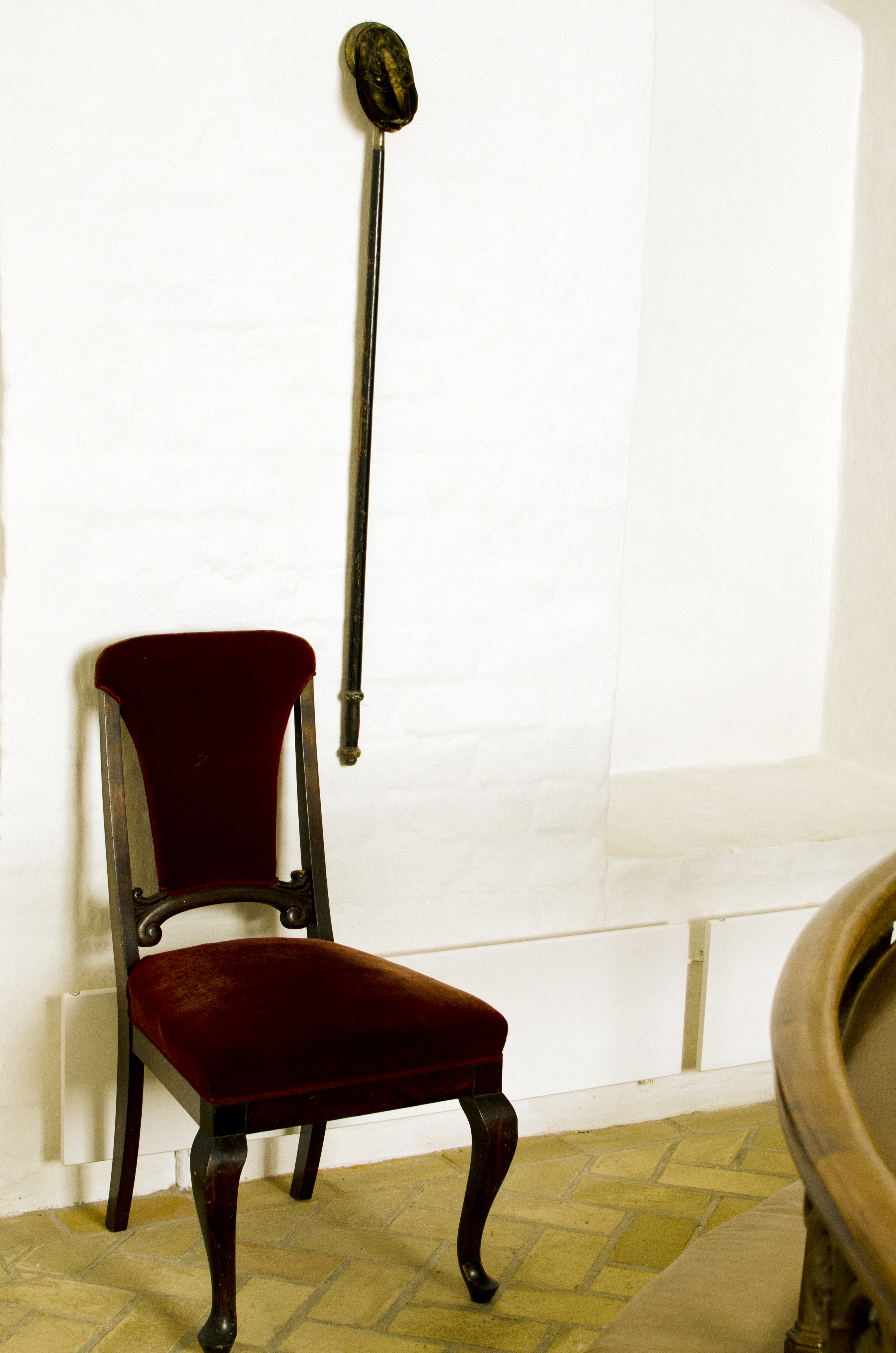 blades purse